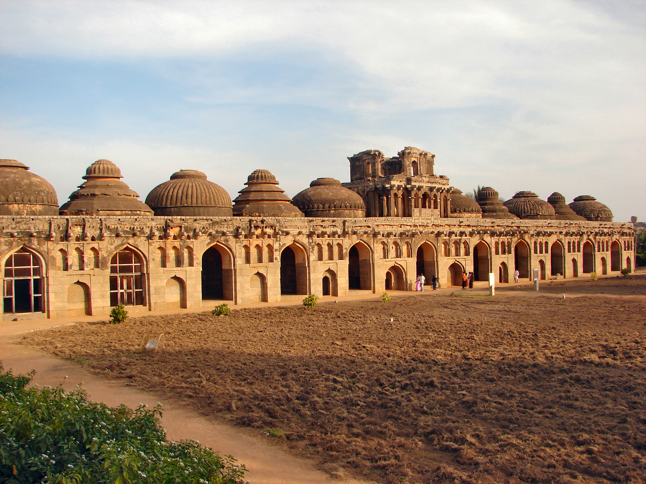 The elephant stables in the Vijayanagara complex in Hampi, Karnataka, India. The domes reveal an Islamic/Arabic influence.